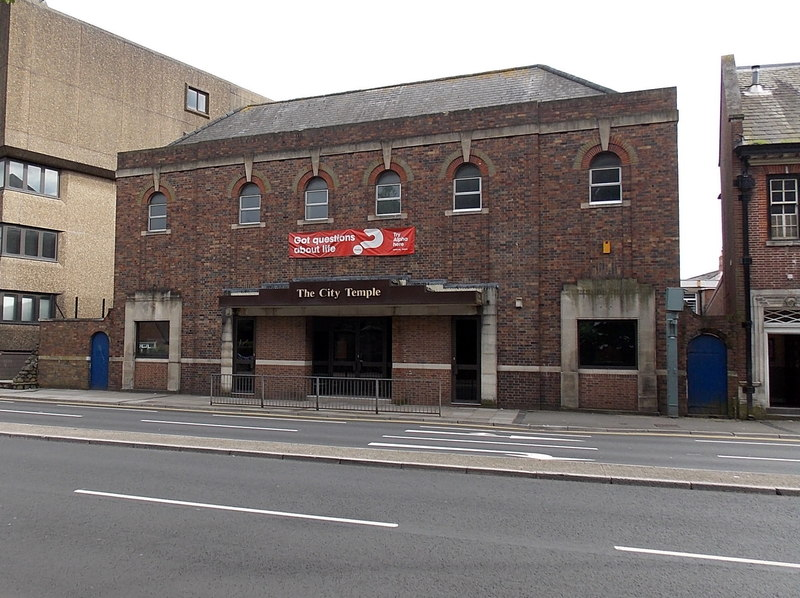 The City Temple, Cardiff